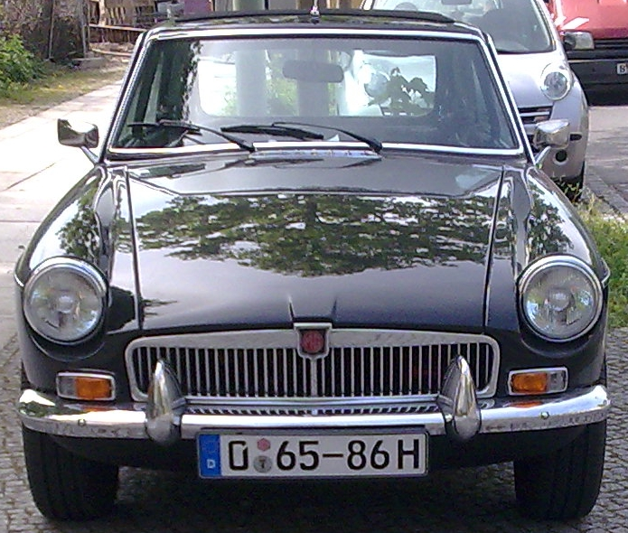 diplomatic-historical license plate